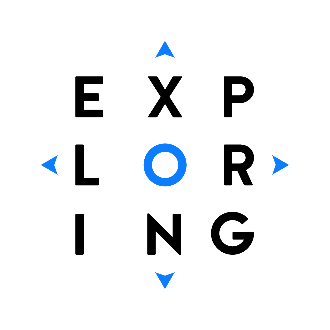 Exploring logo from the Learning for Life corporationThis is the new Exploring logo from the Learning for Life corporation. I am an official representative of the corporation and am authorized to use the logo.